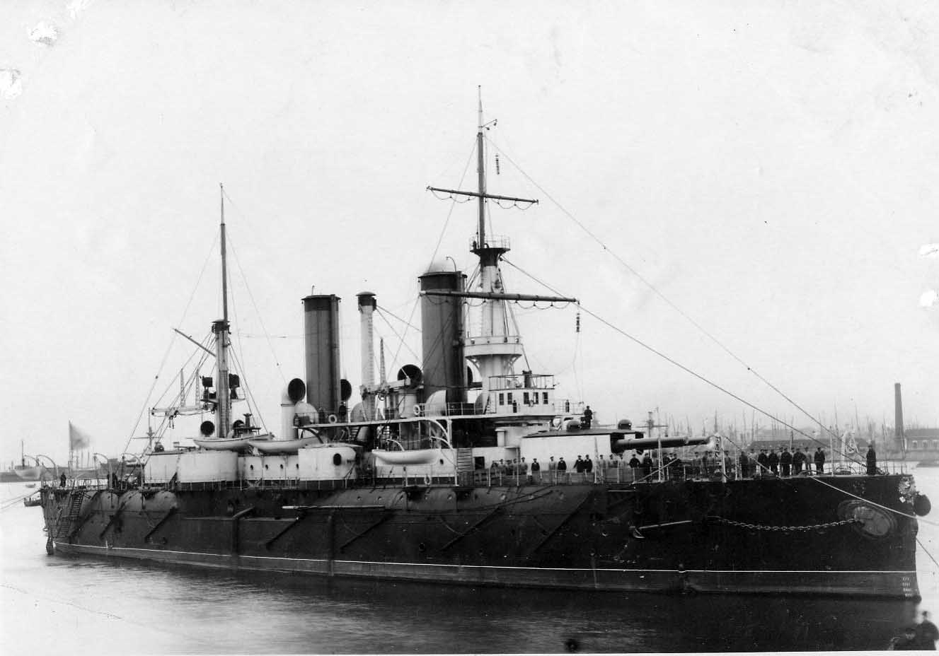 Imperial Russian battleship Poltava.